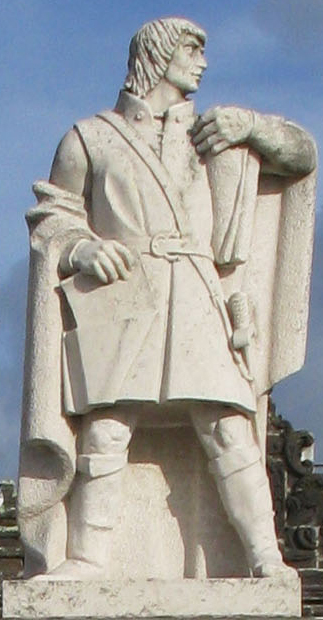 Statue of Goncalo Velho Cabral near the city gates of Ponta Delgada, Sao Miguel, Azores